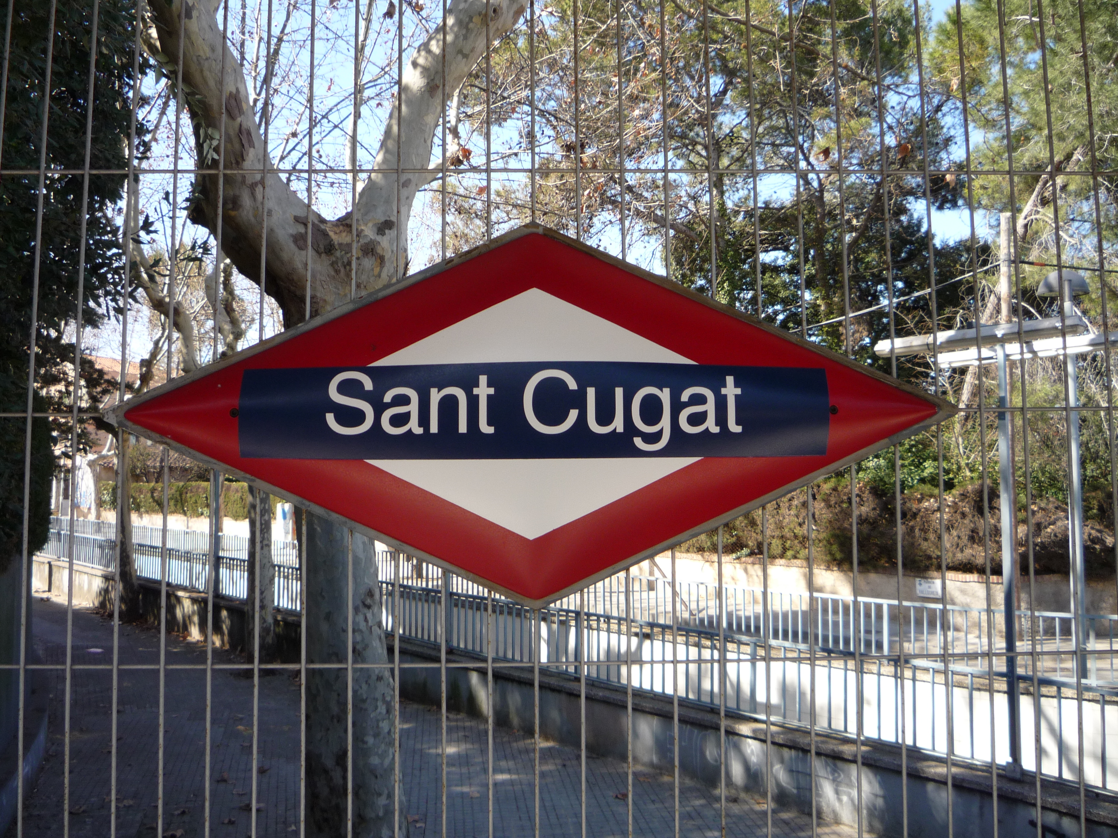 A Ferrocarrils de la Generalitat de Catalunya sign with the name of the station, Sant Cugat.